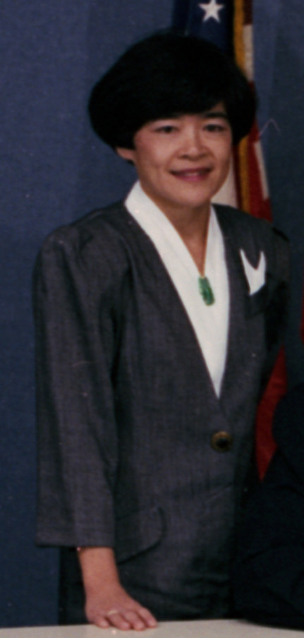 Cheryl Chow, 1992.